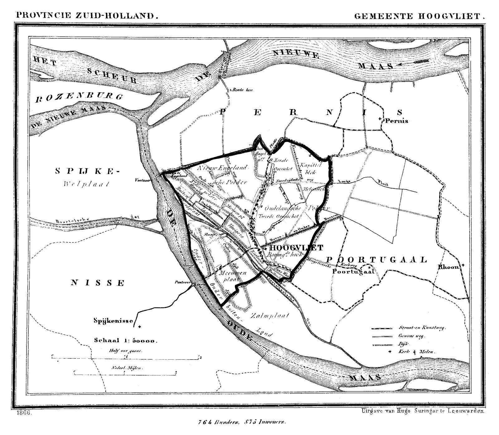 Historic map of Hoogvliet (now part of municipality Rotterdam), South Holland, the Netherlands